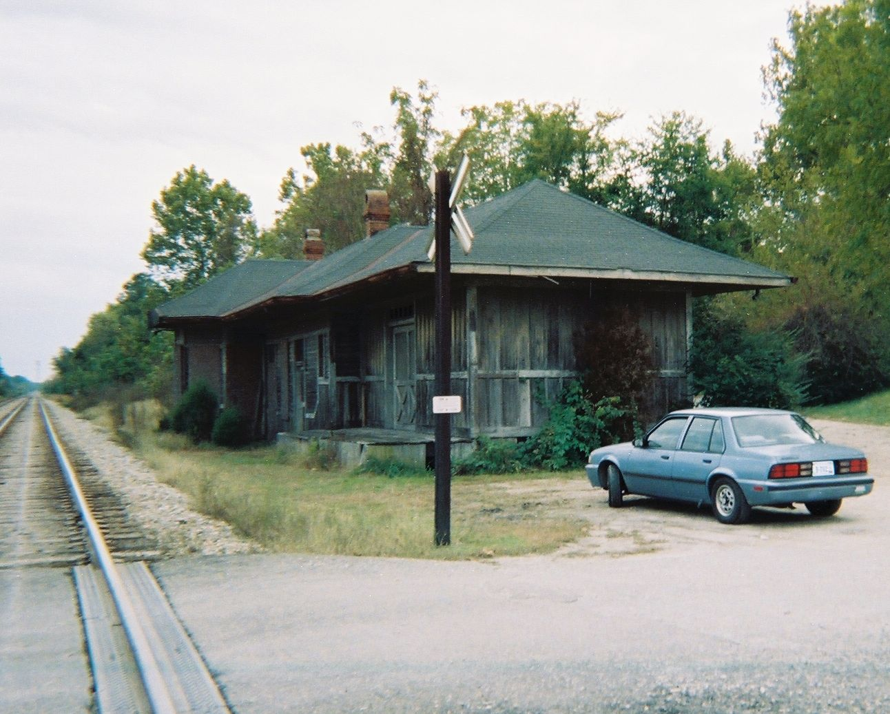 The former Norge, Virginia railroad station located on the 1881 Peninsula Subdivision of the Chesapeake and Ohio Railway (C&0), seen in October 2005 before relocation. (view is looking east toward Williamsburg).